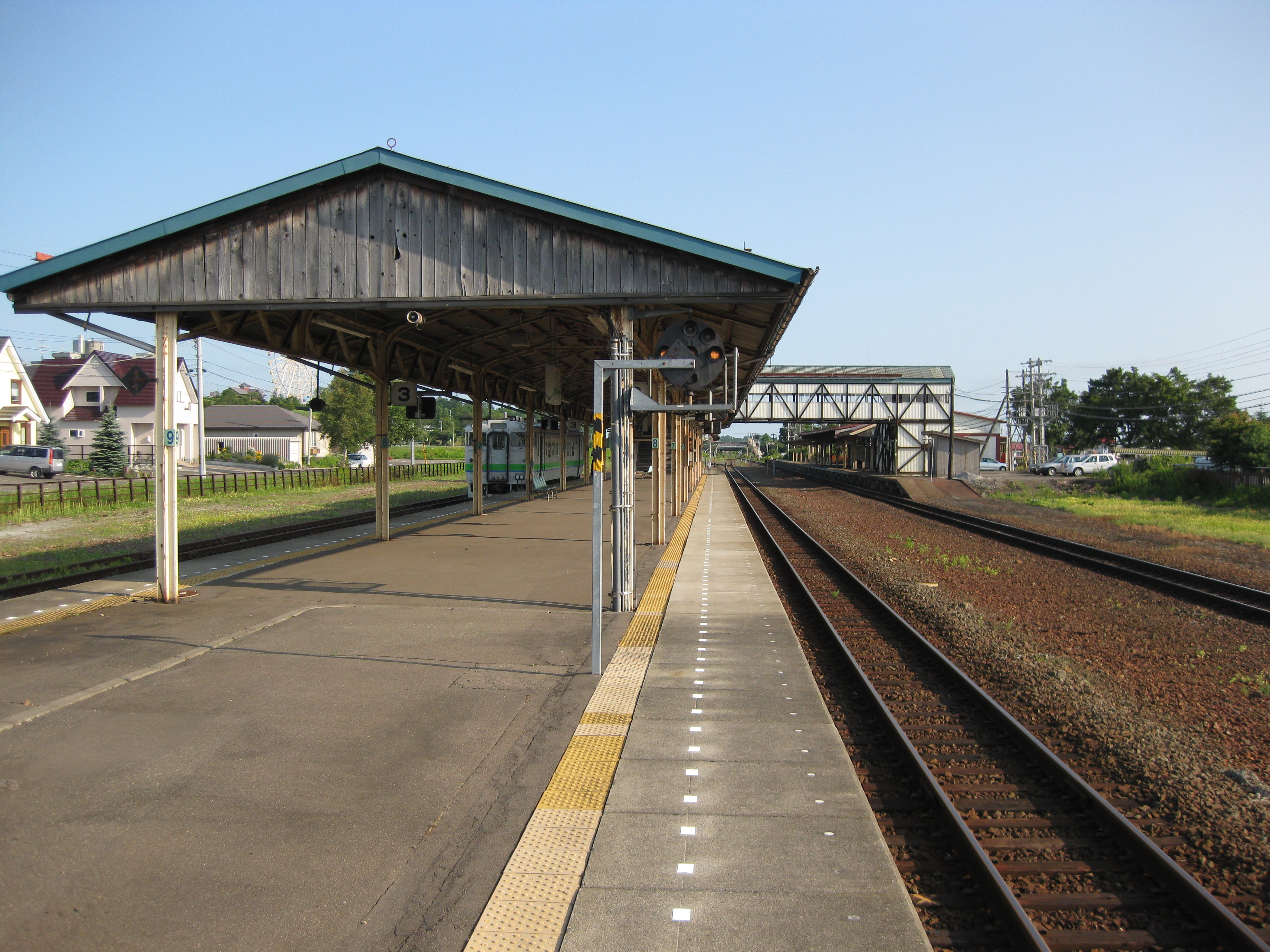 Ikeda station platform, Hokkaido, Japan